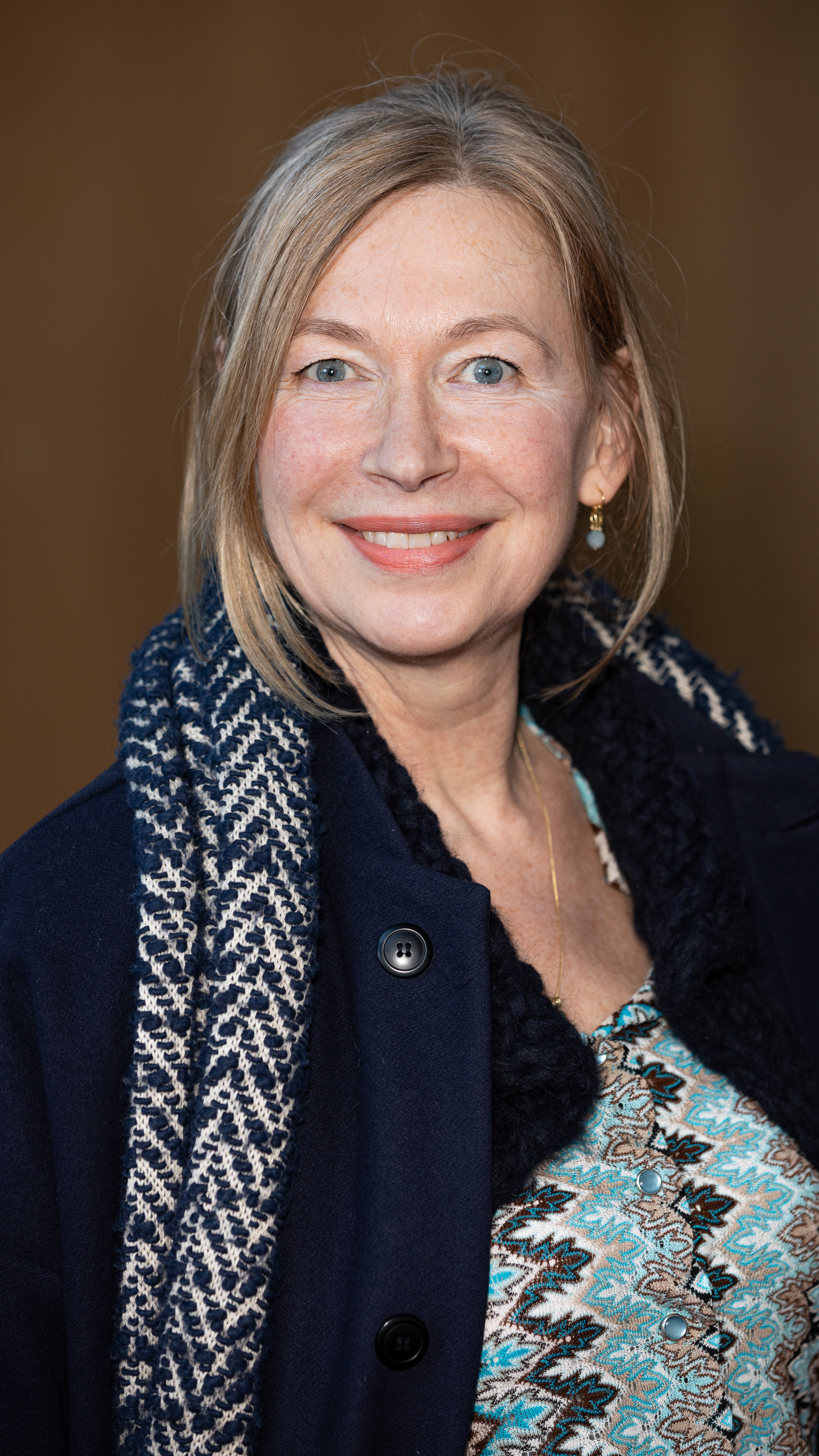 Therese Hämer at the Hessian reception during the Berlinale 2019